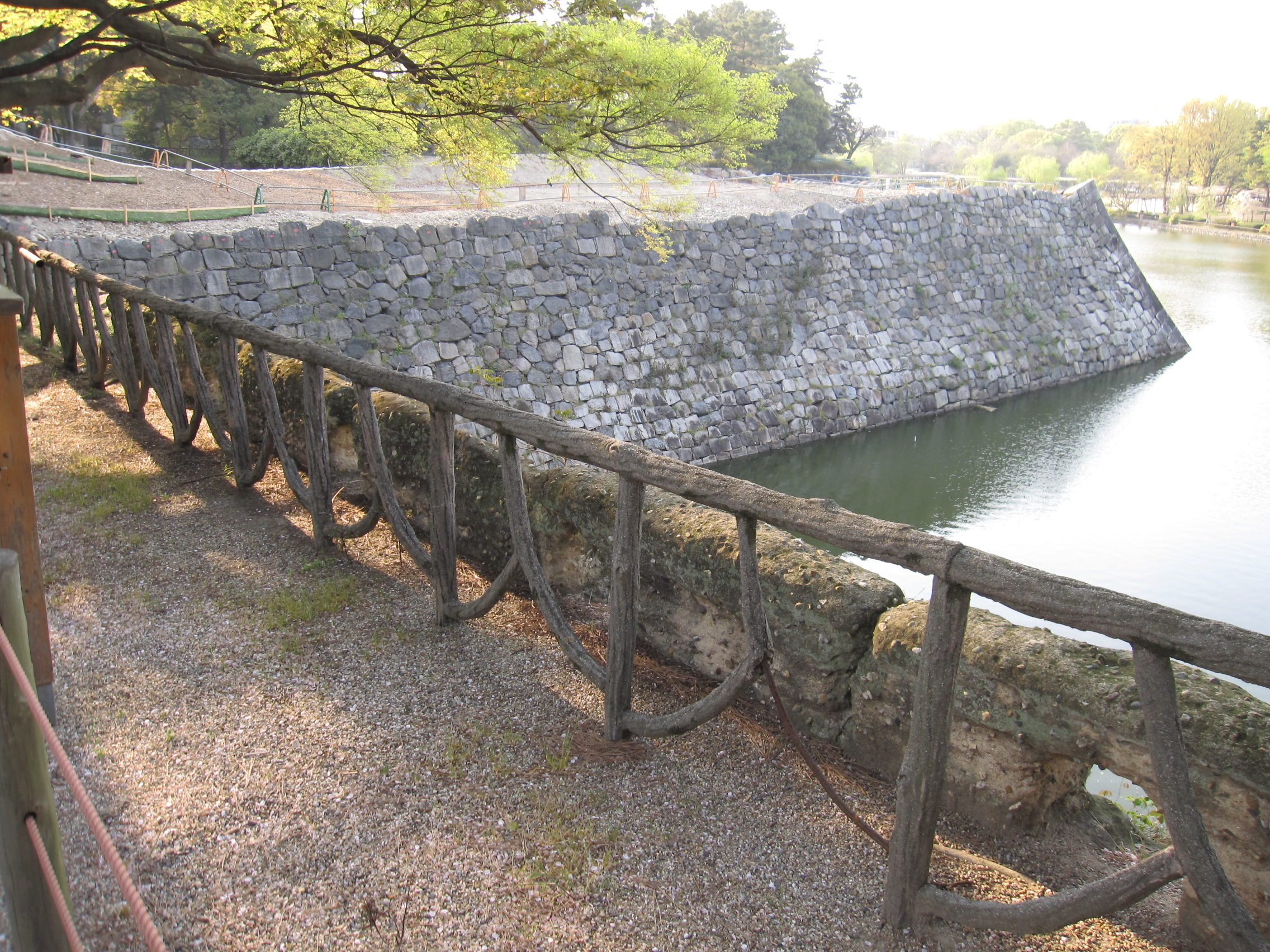 The remains of the Namban, or European, wall can be seen north of the Ninomaru Garden where they run from east to west on top of the stone wall. This sturdy wall was constructed using the European plaster method, topped with tiles, and had many round gunports. Today this wall is considered to be a unique feature to Nagoya Castle and has been designed an important cultural asset.